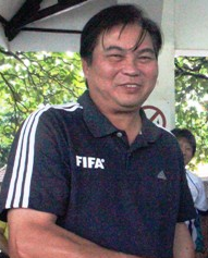 Mariano Araneta